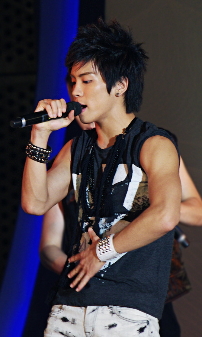 Jonghyun performs at the SBS 20th Foundation Anniversary Tomorrow Festival, South Korea.